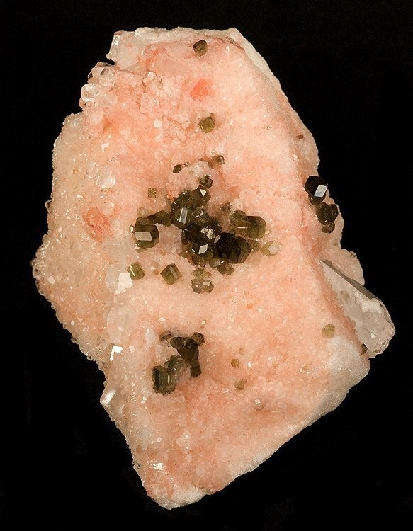 Uvite, Svanbergite Locality: Pomba pit, Serra das Éguas, Brumado (Bom Jesus dos Meiras), Bahia, Northeast Region, Brazil (Locality at ) Size: 9.3 x 6.2 x 5.0 cm. Brilliant green uvite crystals to 5mm sit, sparkling, on a sparkling matrix of crystallized magnesite. The underlying matrix is either massive magnesite or dolomite. The intensity of the little jewel-like uvites, and their contrast to the matrix, is striking. A single sharp 4mm svanbergite (beige-colored) is also present.